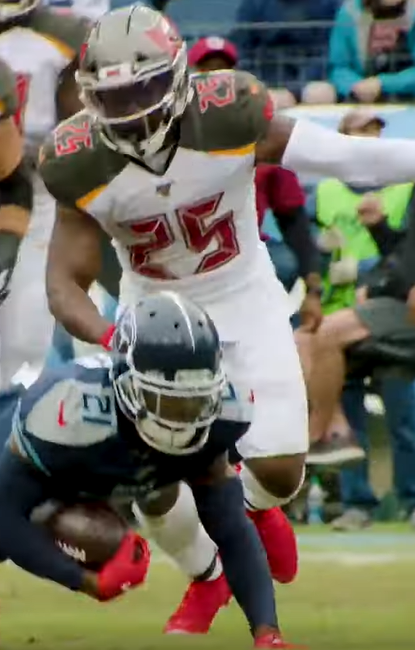 Peyton Barber 2019. Image from video Titans Mic'd Up vs. Bucs (Week 8) | Sounds of the Gamee, ~ 01:00.